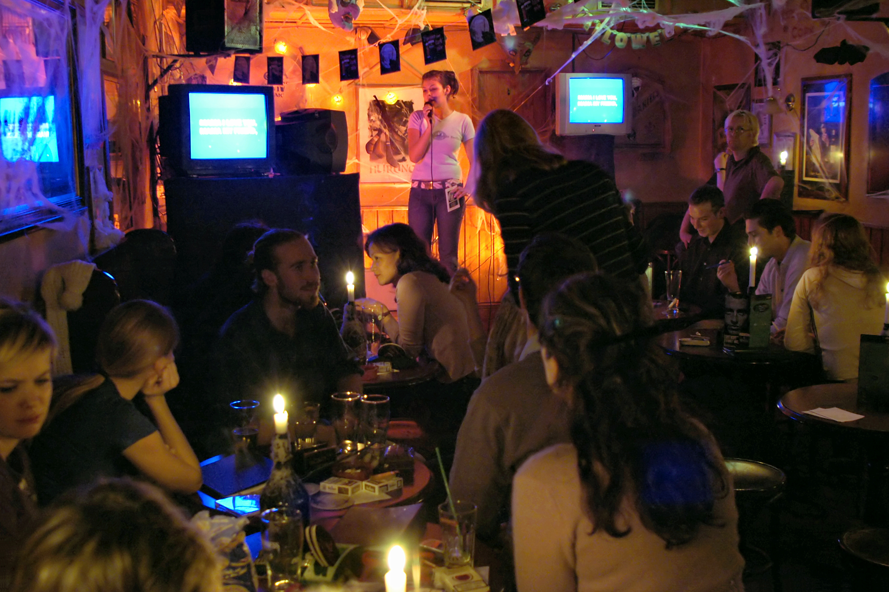 Karaoke in the Irish Pub "The Old Dubliner" ( in Hamburg, Germany, picture taken without flash